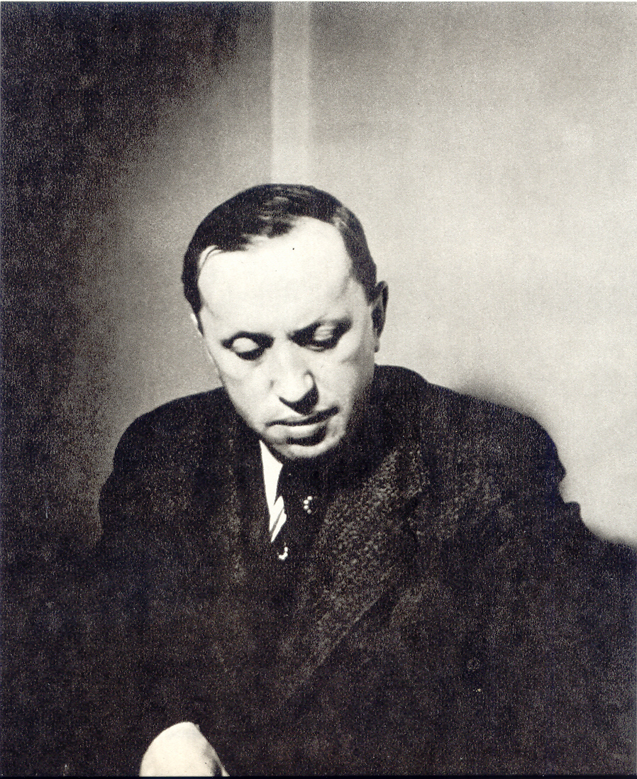 Karel Čapek in thirtis